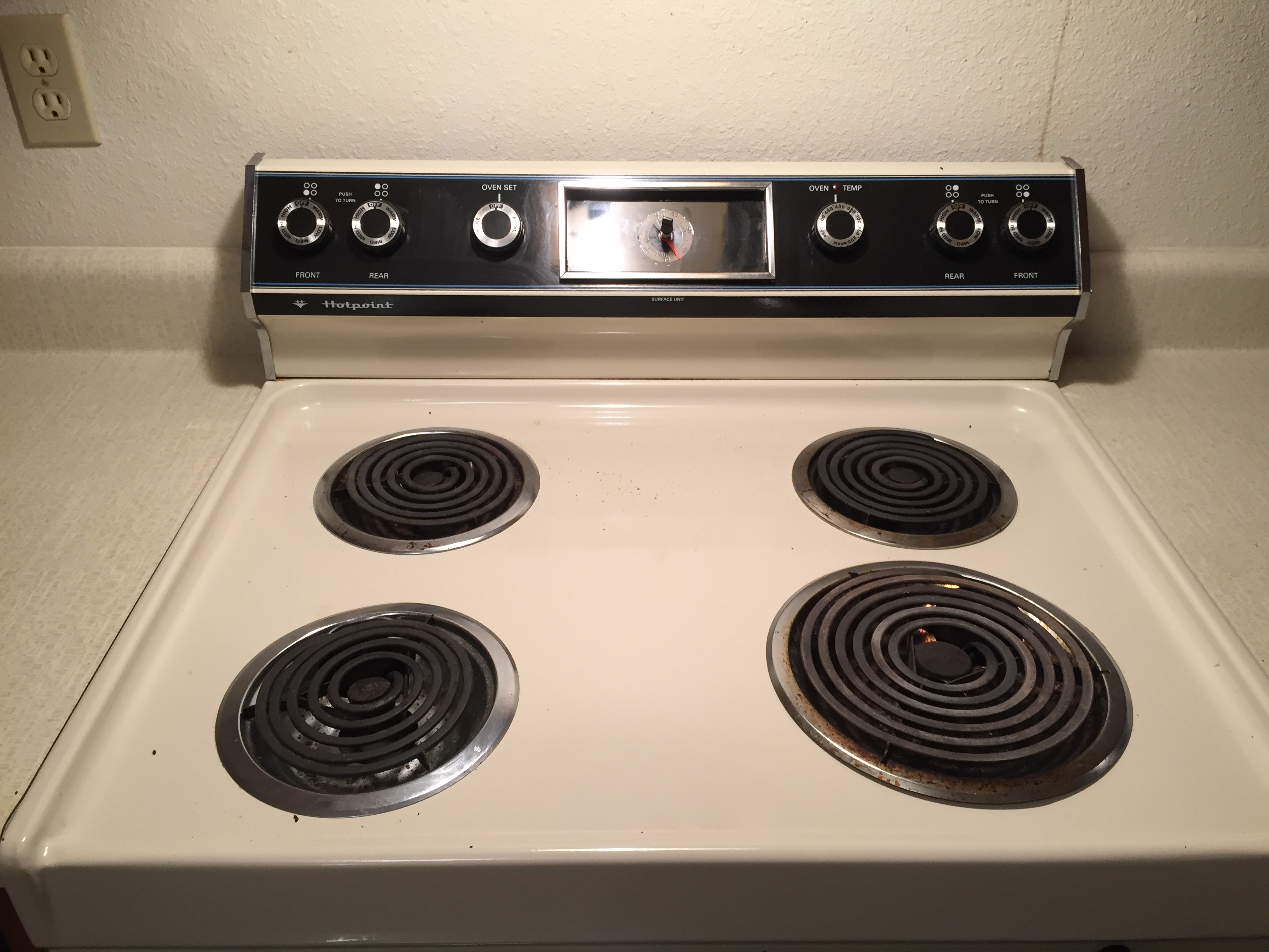 Hotpoint Electric Range Model RB5280A1AD